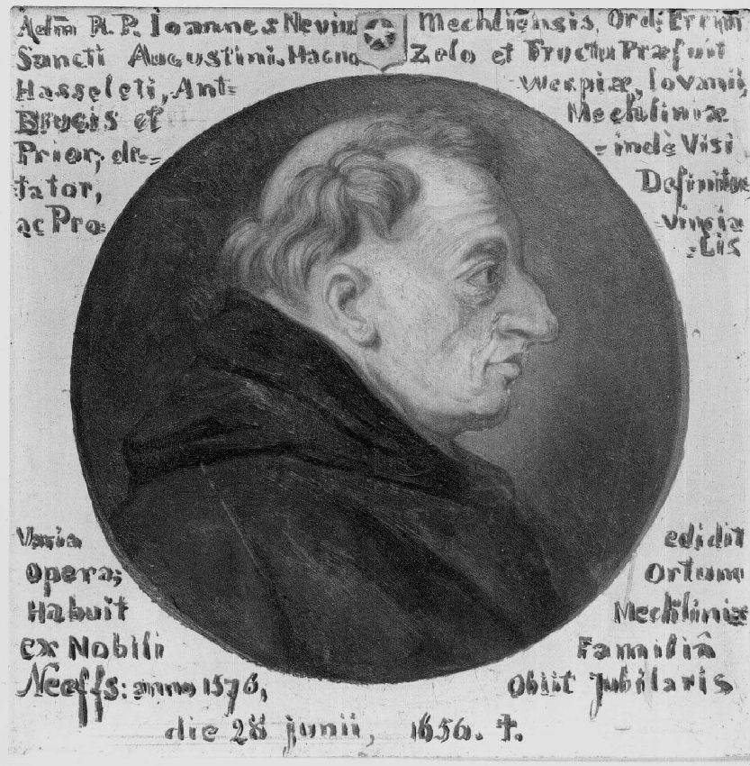 Portret van pater Ioannes Nevius, augustijn te Mechelen